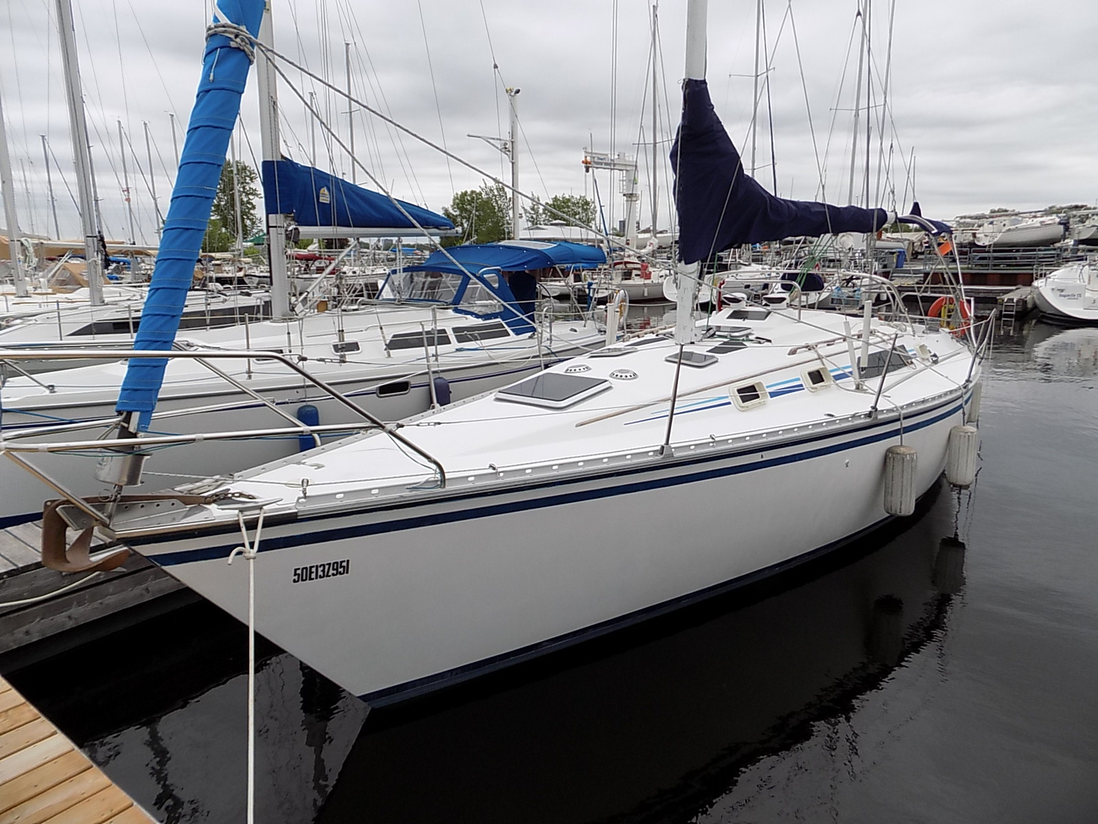 A Hunter 34 sailboat named Sharon Rose.